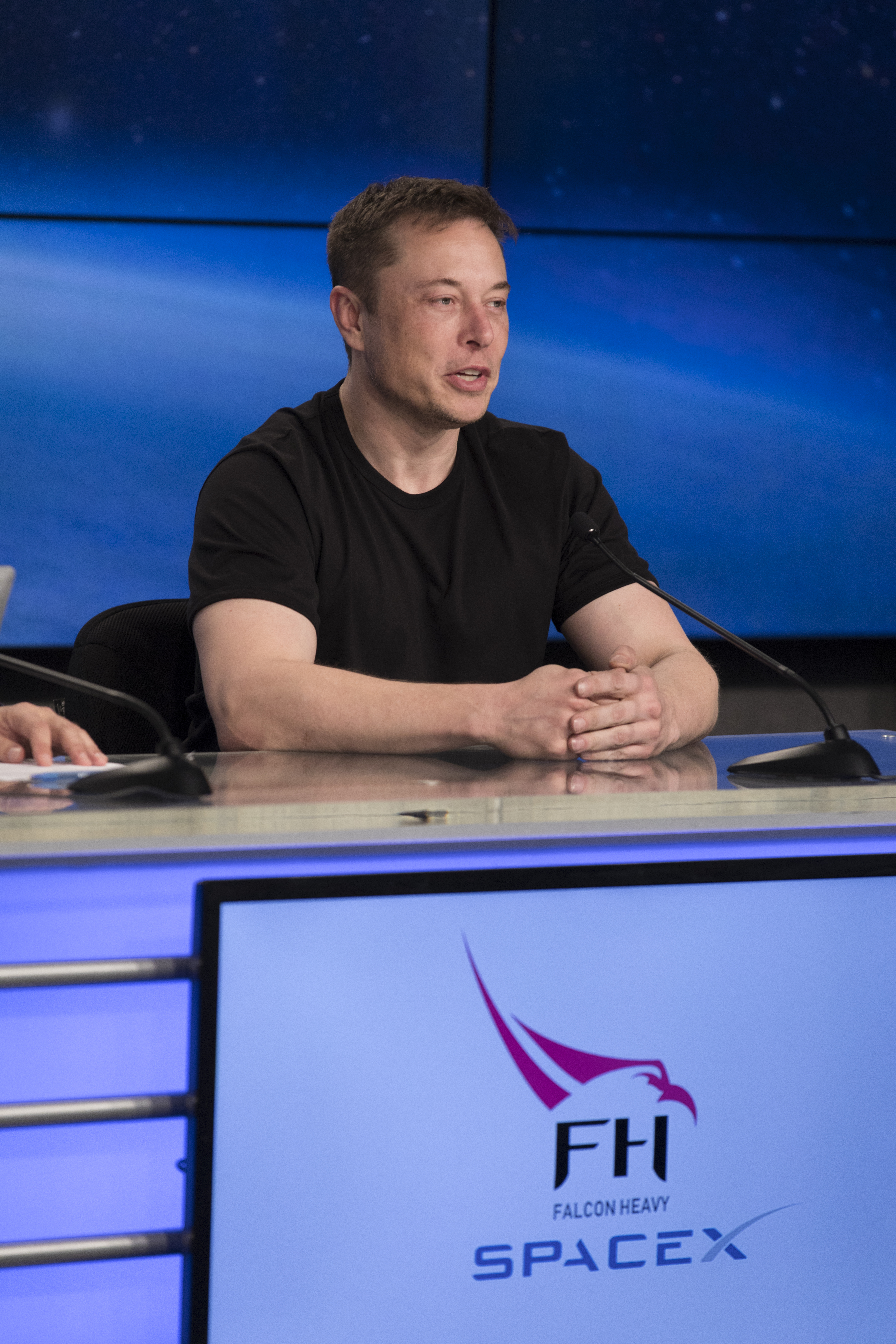 Elon Musk, SpaceX chief executive officer and lead designer, speaks to the news media during a news conference at NASA's Kennedy Space Center in Florida after the successful liftoff of the company’s Falcon Heavy rocket from Launch Complex 39A. The demonstration flight is a significant milestone for the world's premier multi-user spaceport. In 2014, NASA signed a property agreement with SpaceX for the use and operation of the center's pad 39A, where the company has launched Falcon 9 rockets and is preparing for the first Falcon Heavy. NASA also has Space Act Agreements in place with partners, such as SpaceX, to provide services needed to process and launch rockets and spacecraft.